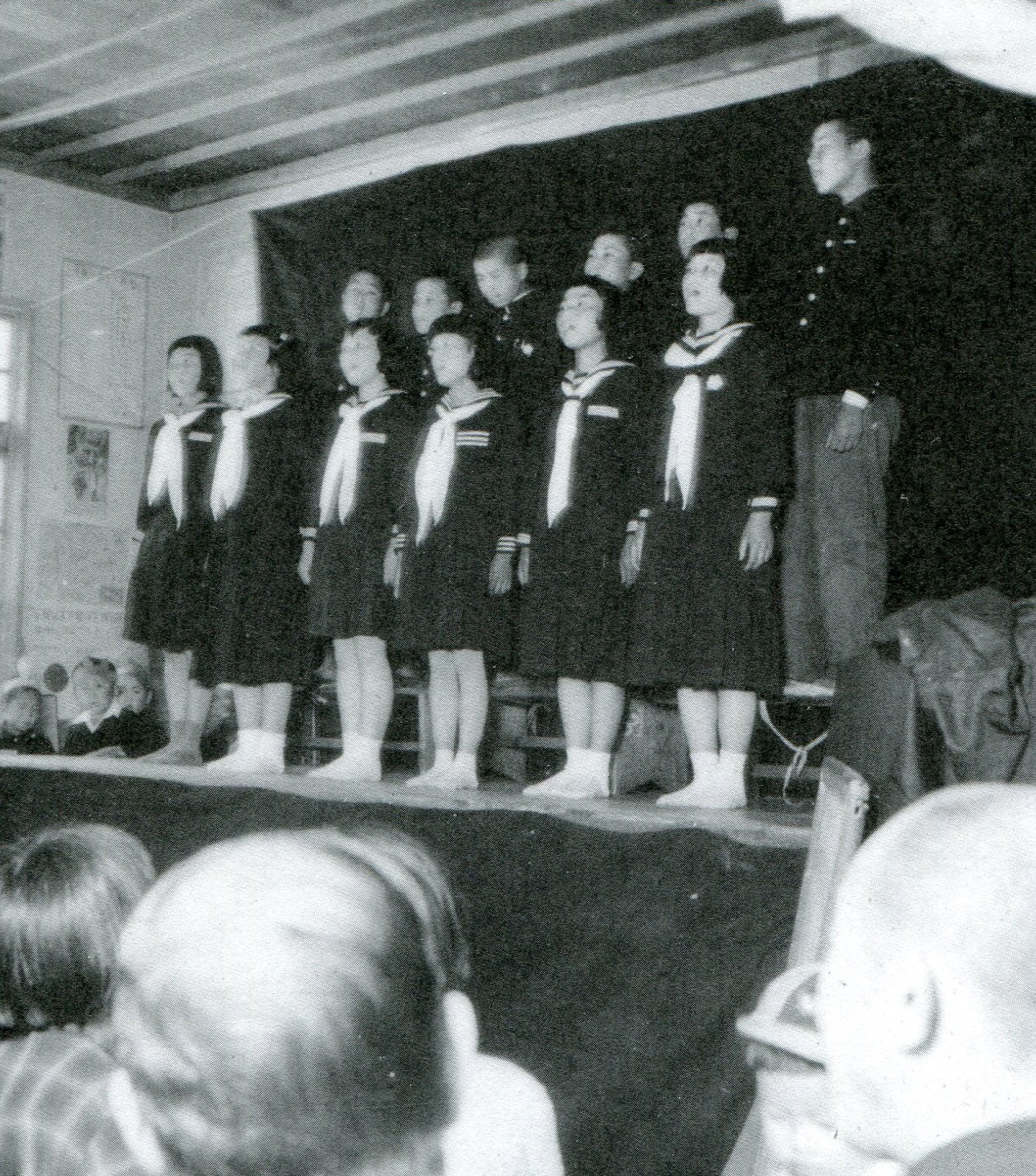 Ashikawa junior high school School in 1955Concert